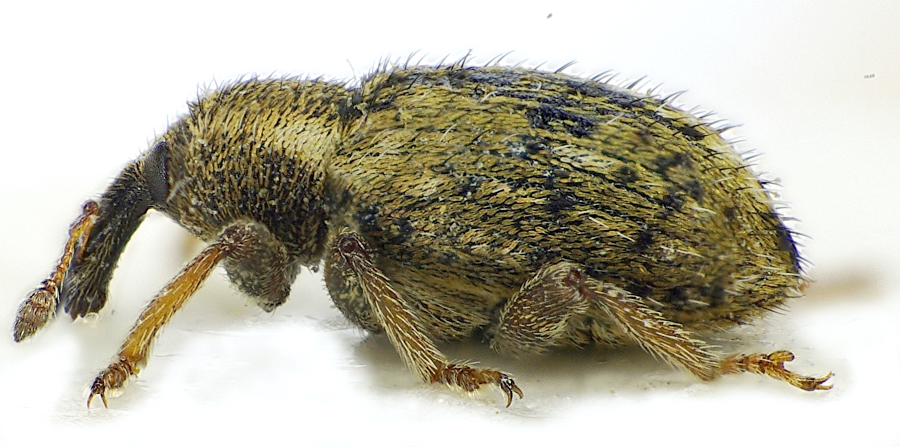 Limobius borealis from Southern Germany